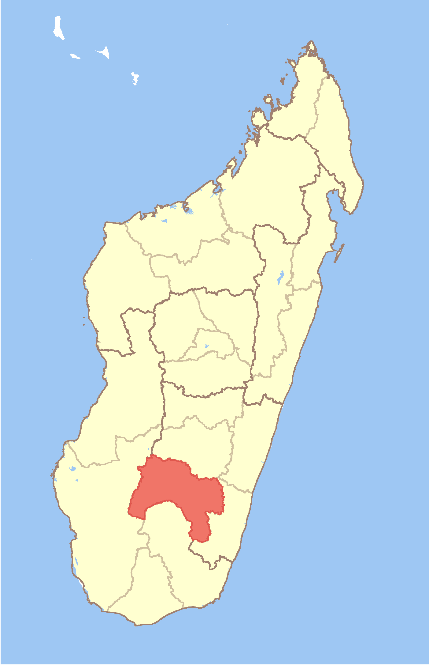 Map of Madagascar with Ihorombe Region highlighted